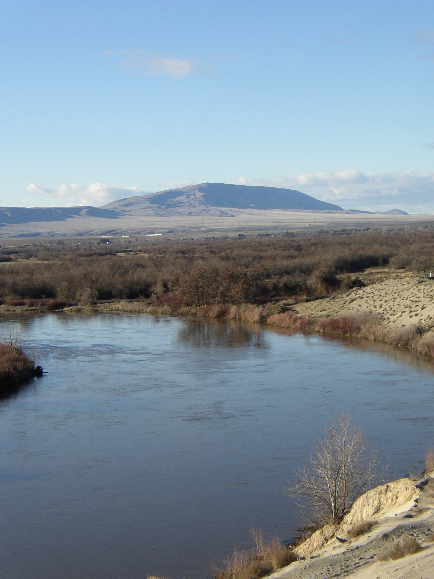 Photos of Richland, Washington taken on a lovely 50°F Sunday, January 15, 2006 for the specific purpose of being uploaded to the Wikipedia. All rights are released; they are henceforth & forever in the public domain until the sun does not rise in the east and the rivers no longer run to the sea. Rattlesnake Mountain as seen from the Richland Horn Rapids area. The Yakima River flows in the foreground. RichlandWaRattlesnakeYakima.jpg